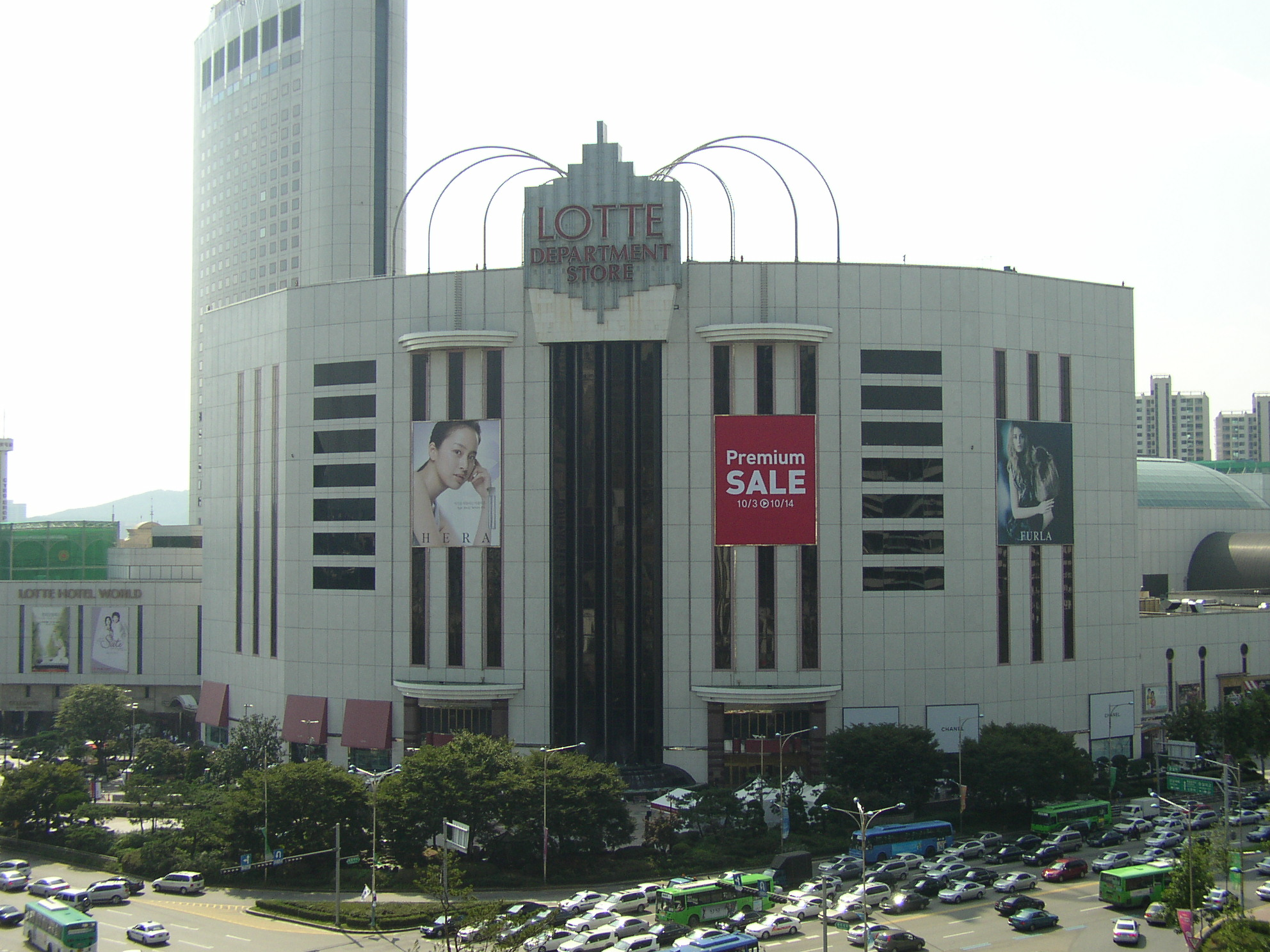 Lotte Department in Jamsil, Seoul, Korea